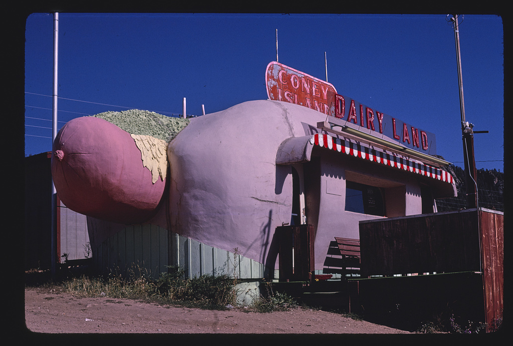 This restaurant was on Route 285 in Aspen Park, Colorado, it was later moved and renamed, now the Coney Island Hot Dog Stand in Bailey, CO